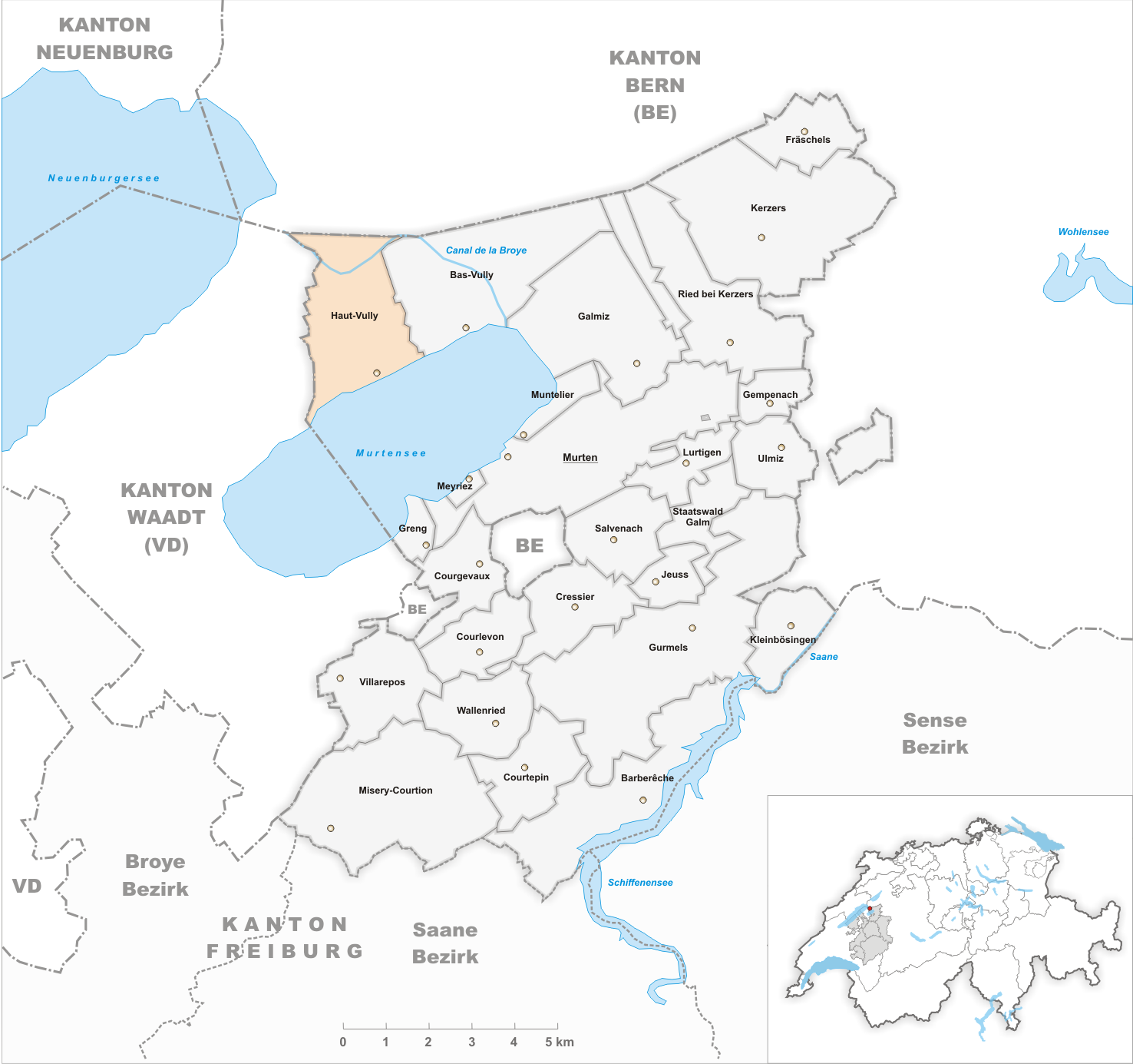 Municipality Haut-Vully